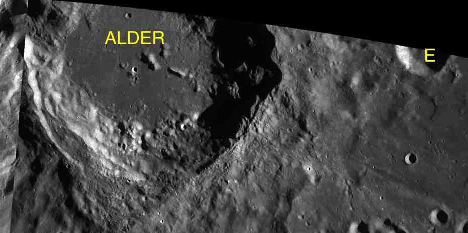 Part of the chart LAC-132 used for the presentation